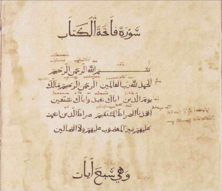 The only known copy of the first printed Qur'an (Venice: Paganino and Alessandro Paganini, between 9 August 1537 and 9 August 1538) - Journal of Qur'anic Studies: Early Printed Qur'ans: The Dissemination of the Qur'an in the West- ARJAN VAN DUK